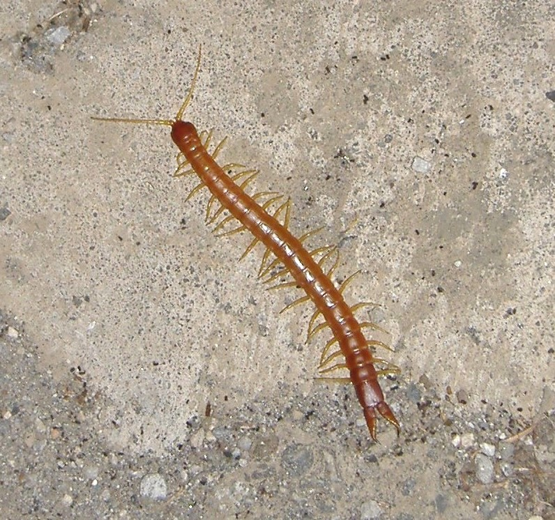 Plutonium zwierleini, Prasiano, 30 august 2008, photo Gaspare Adinolfi